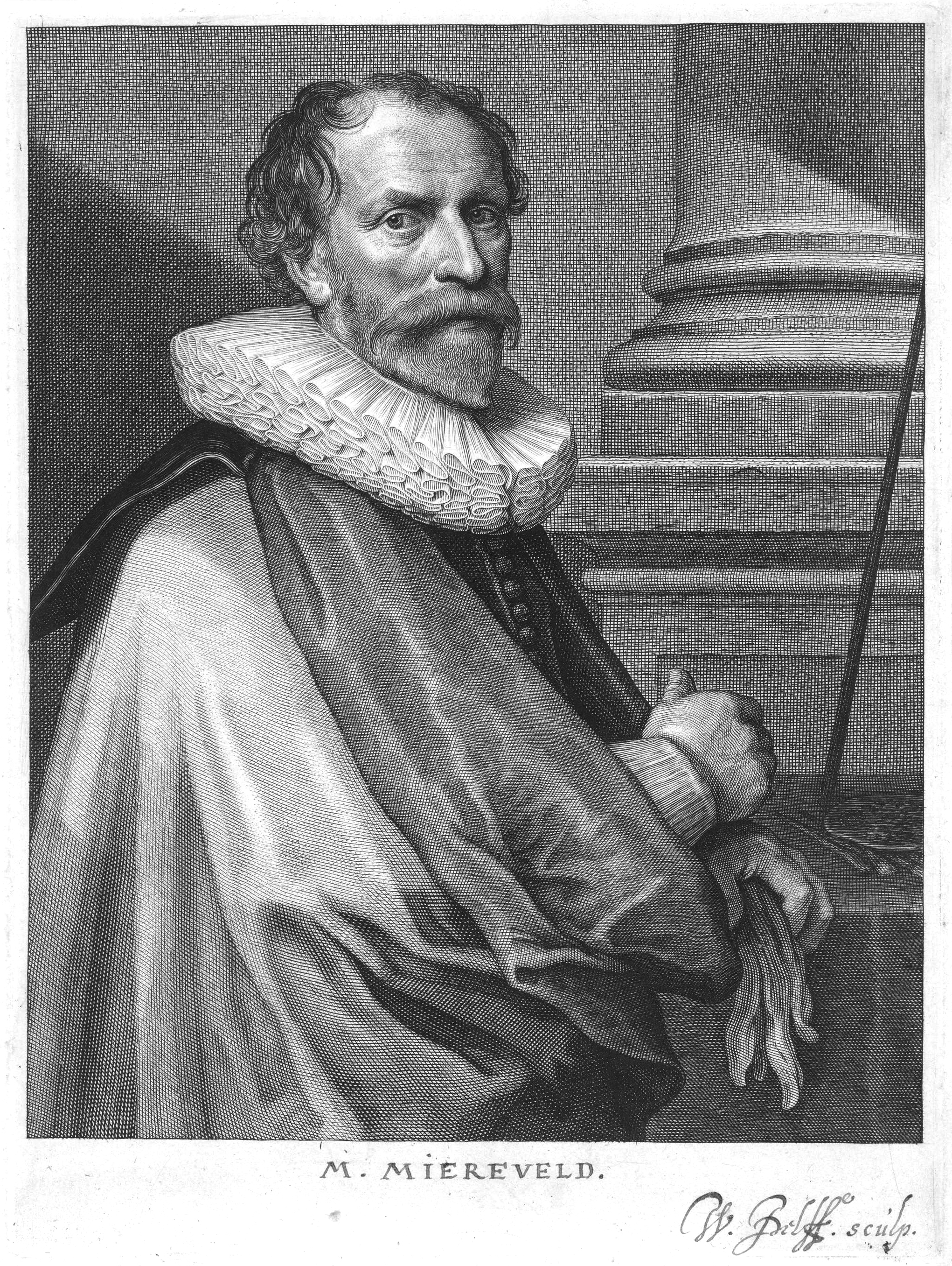 Portrait of Michiel Jansz. Mierevelt